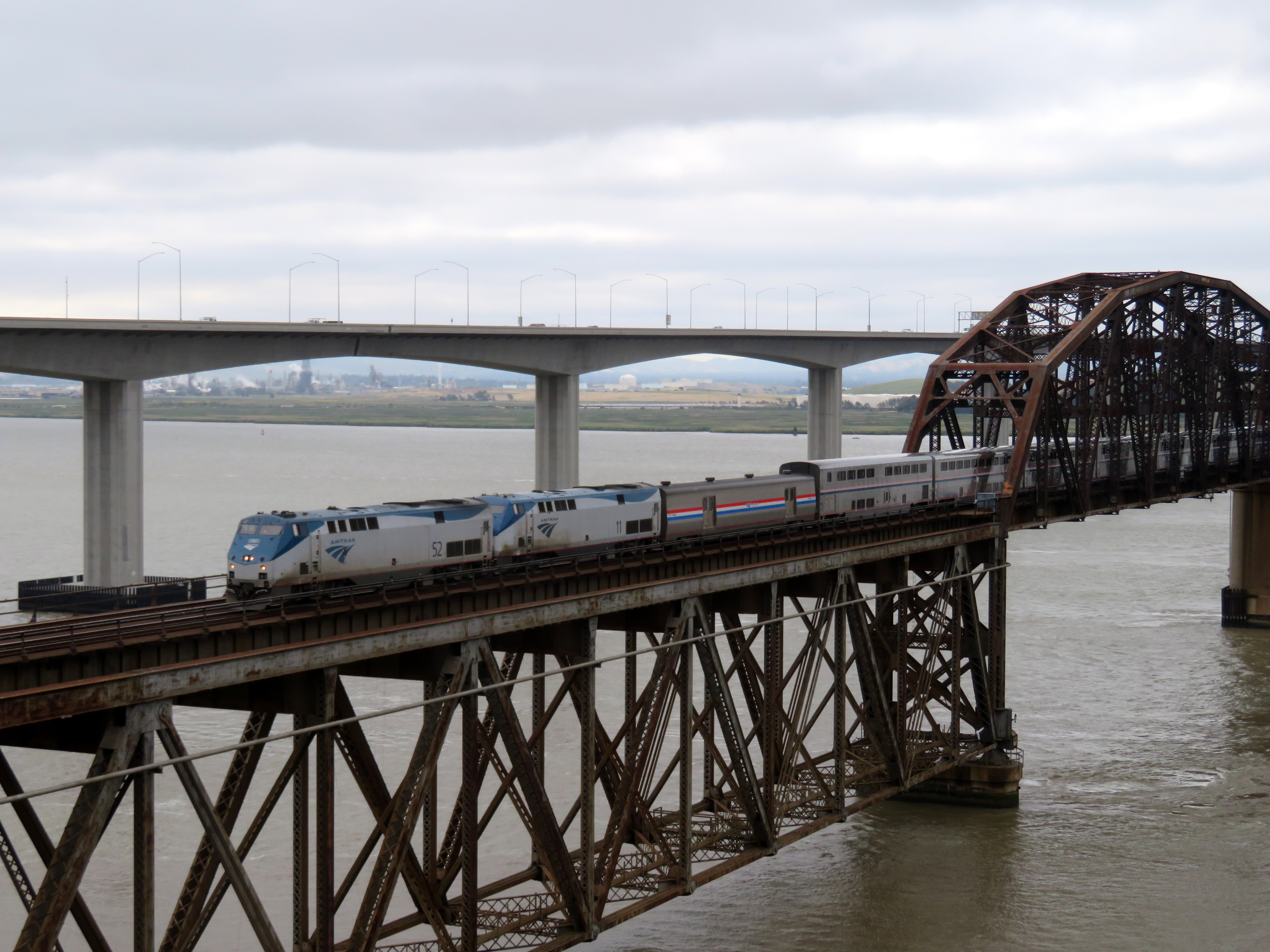 The eastbound California Zephyr crossing the Benicia-Martinez Railroad Drawbridge in May 2019